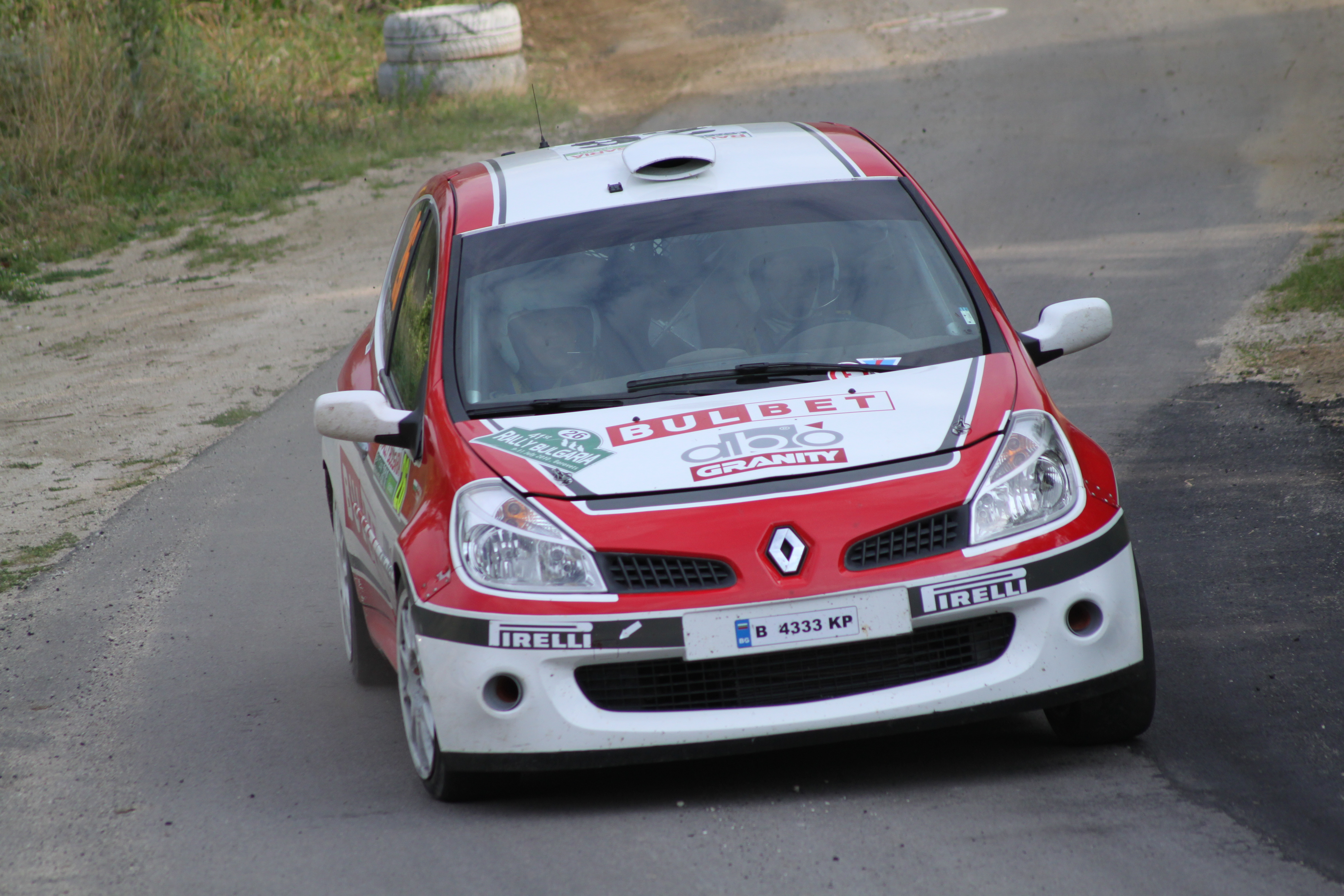 Todor Slavov in 41'st Rally Bulgaria